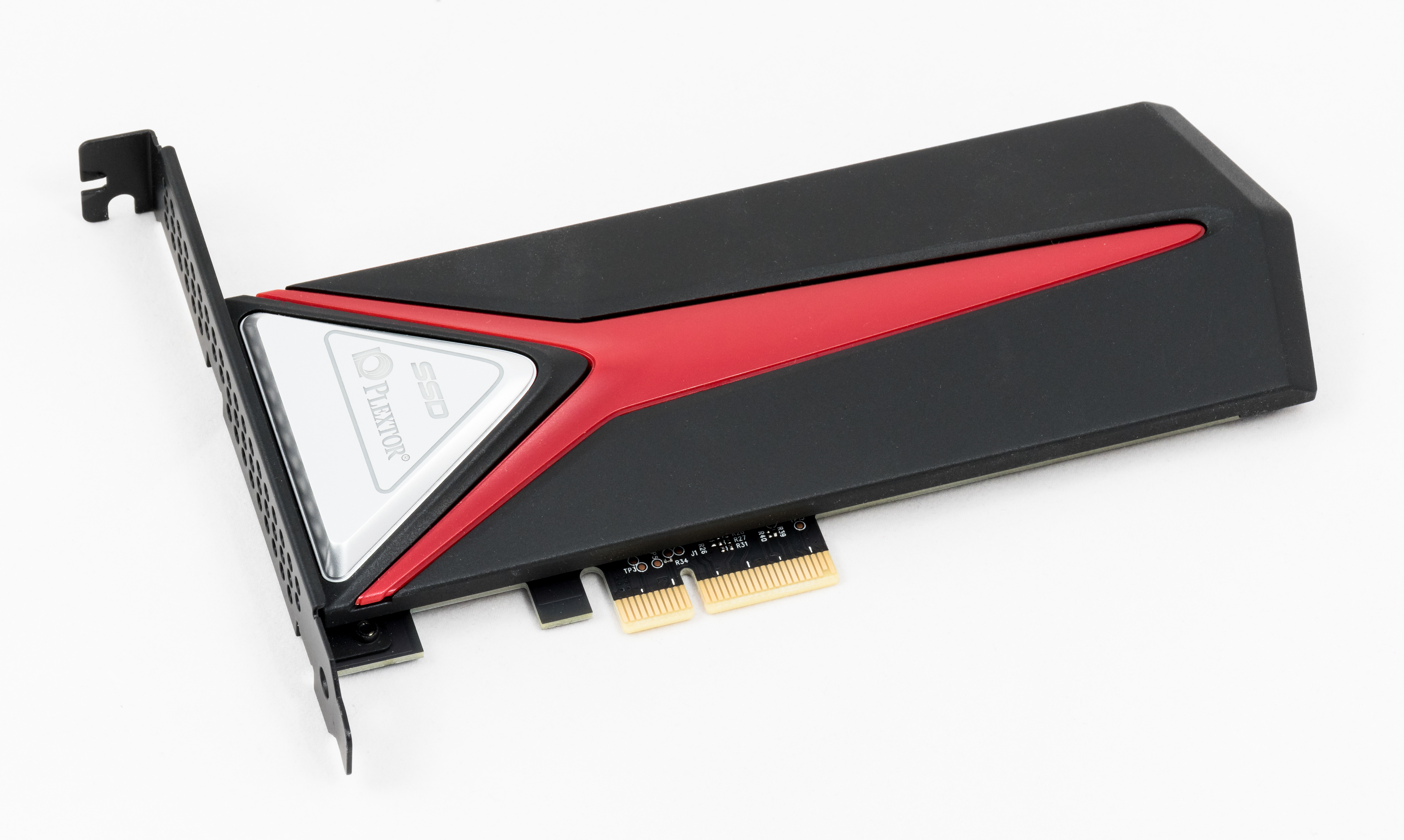 Solid-state drive Plextor M8Pe(Y) 256GB